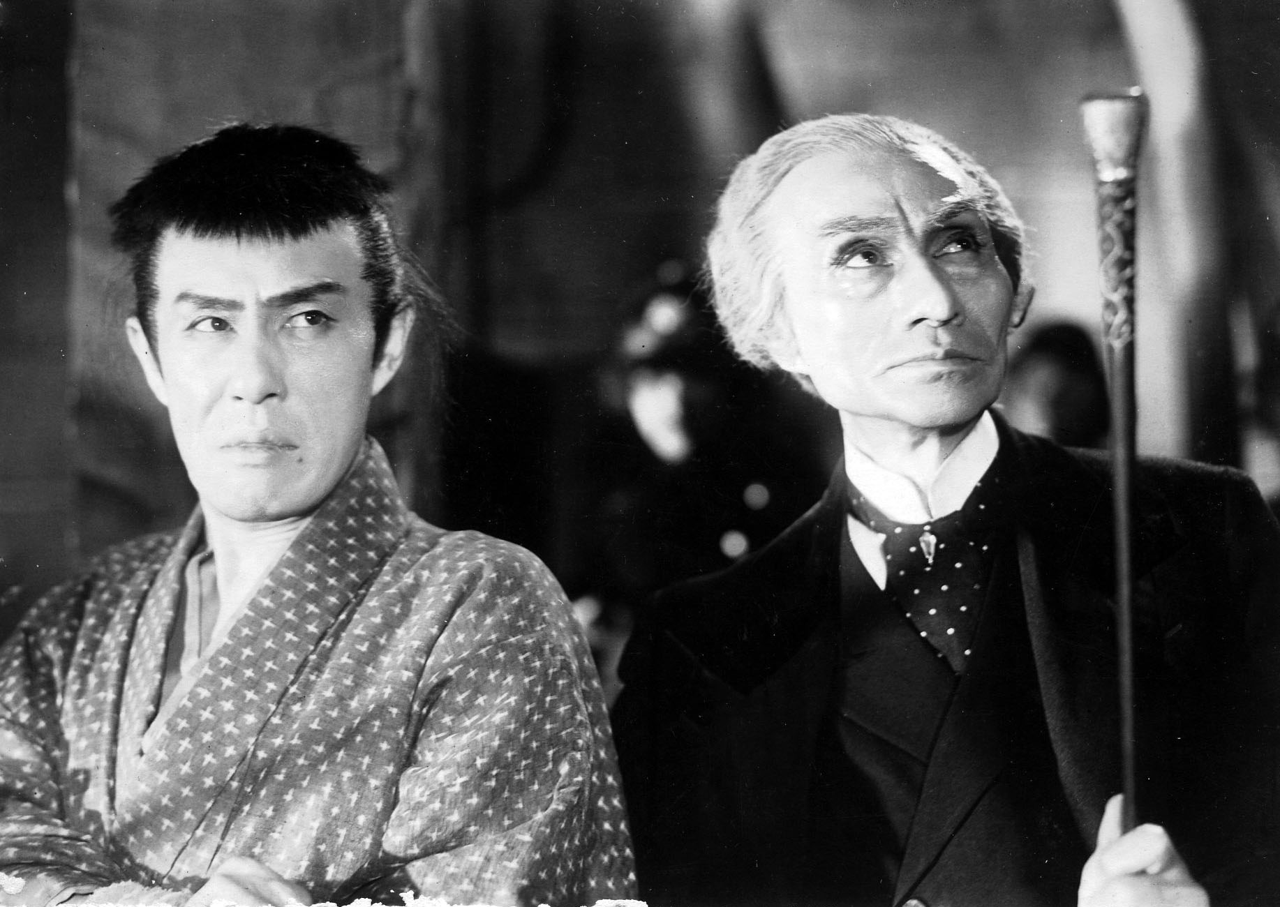 Kanjūrō Arashi and Sōjin Kamiyama in Kurama Tengu (鞍馬天狗) directed by Daisuke Itō - 1942